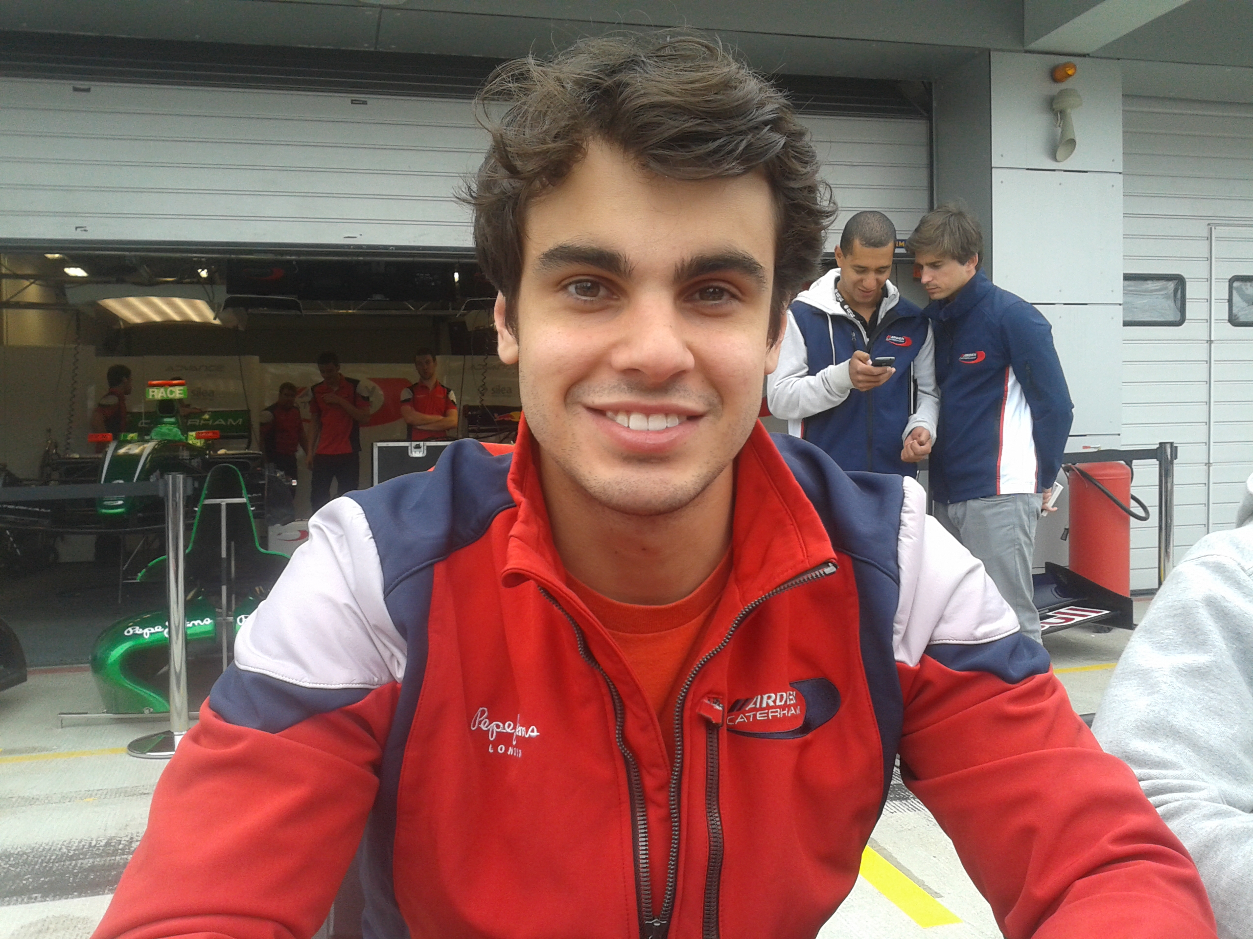 Pietro Fantin at Moscow Raceway, 22 June 2013